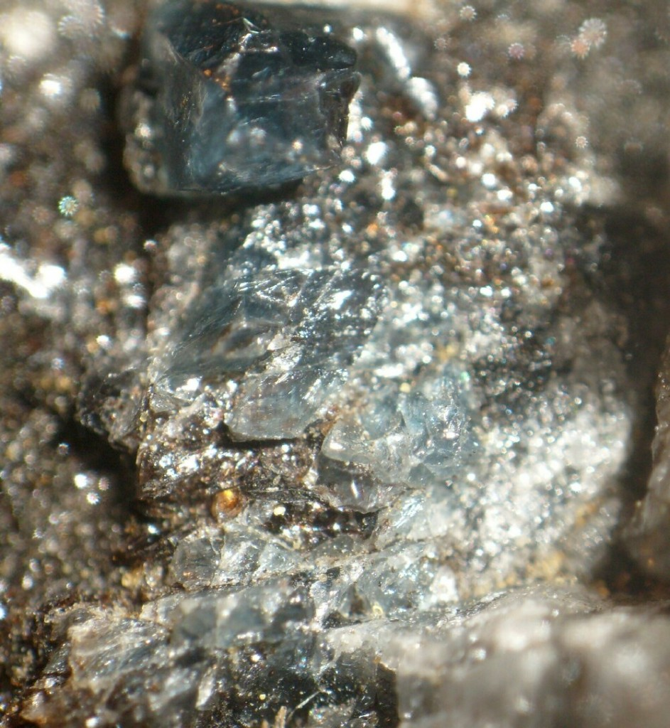 Glaucophane (FOV = 3.5 x 2.5 cm) Locality: Laytonville Quarry ("Longvale"; "Longvale Quarry"), Laytonville, Coastal Range, Mendocino County, California, USA Original description: Beautifully crystallized Glaucophane from the Laytonville Quarry. Collected in Feb 09.